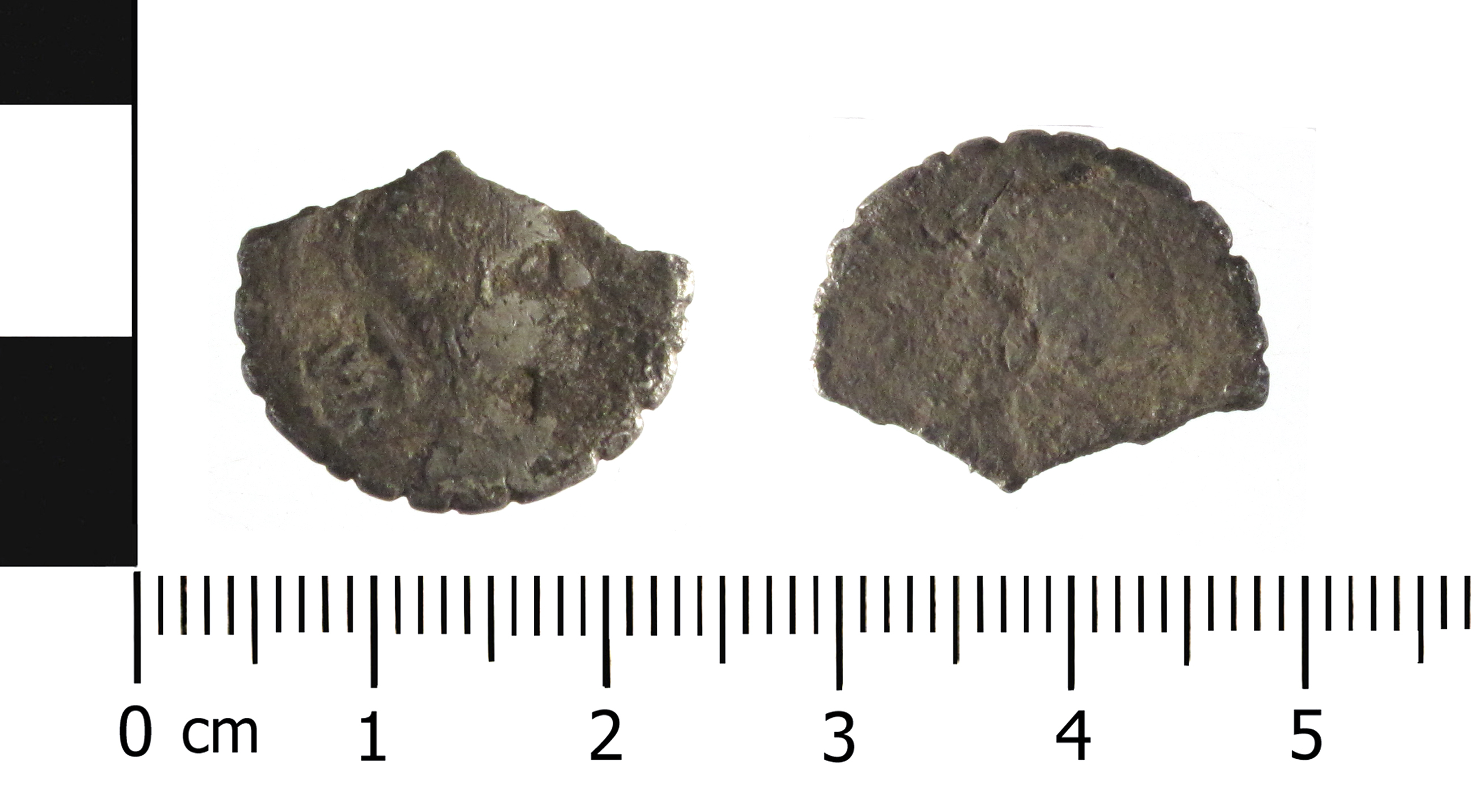 Roman coin: silver Republican serrate denarius minted by Man. Aquillius dating to the period 65 BC (Reece Period 1). MN AQVIL MN F MN N SICIL depicting the consul Man. Aquillius raising Sicilia. Cr401/1; Syd 798 The coin is broken forming a wide 'V', this is probably not recent damage.